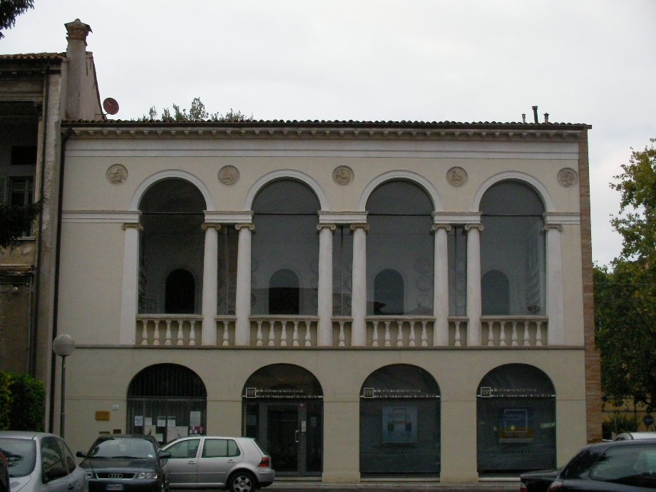 The loggia of Palace Ricciardelli to Faenza